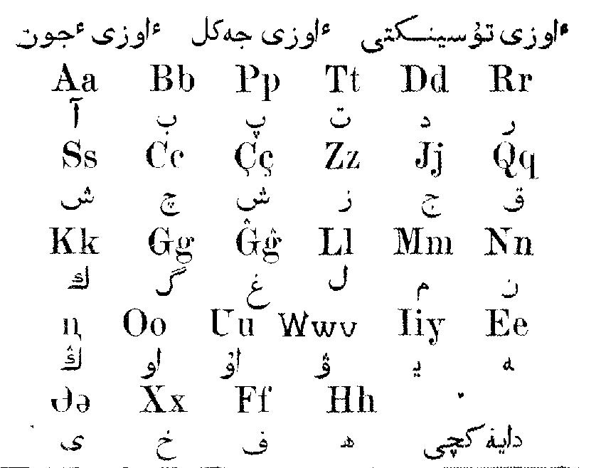 Kazakh latin alphabet from ABC-book (1924)